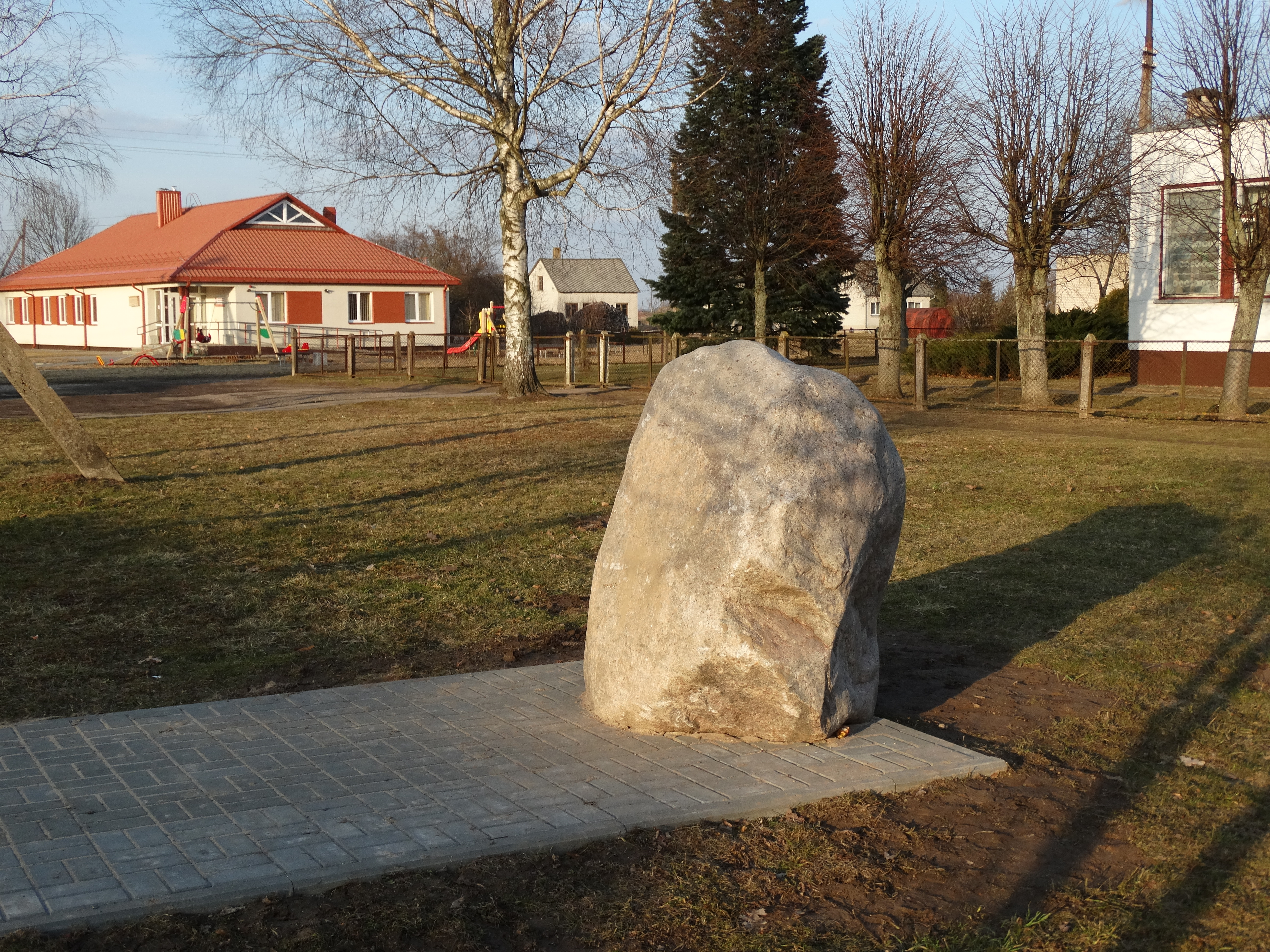 Šimkaičiai, memorial stone, Jurbarkas district, Lithuania